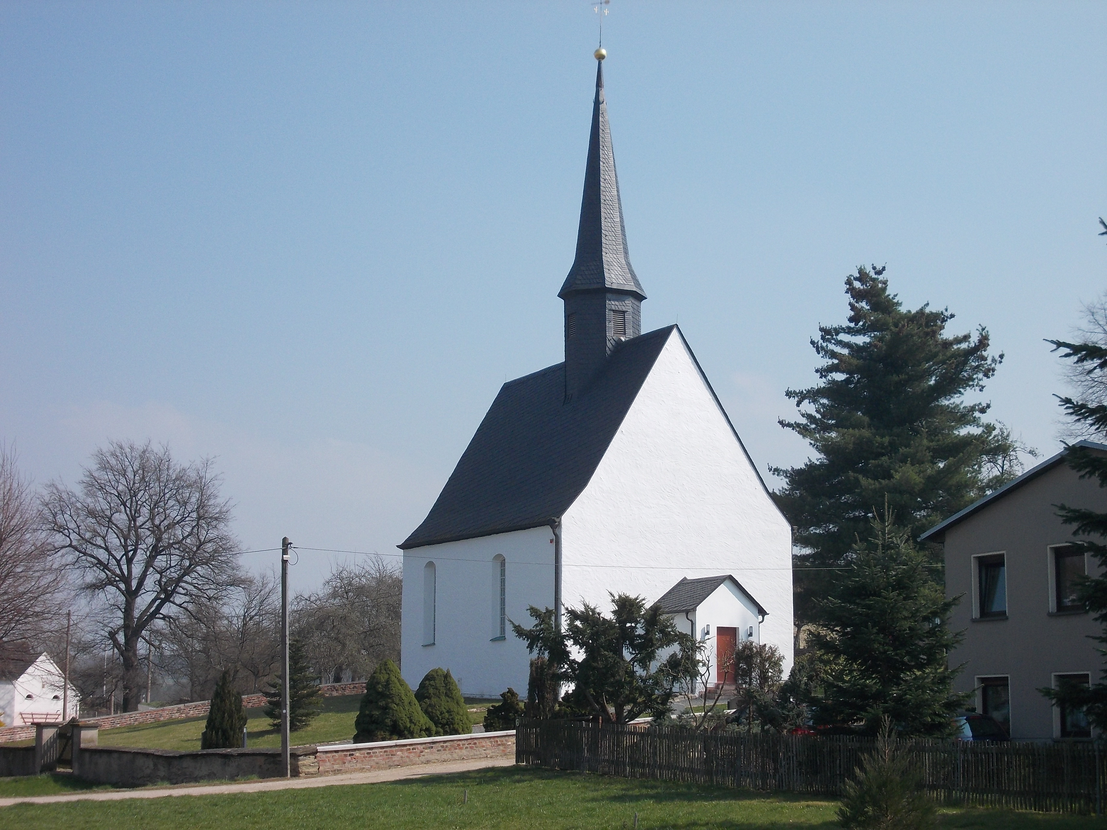 Neukirchen church (Oberwiera, Zwickau district, Saxony)